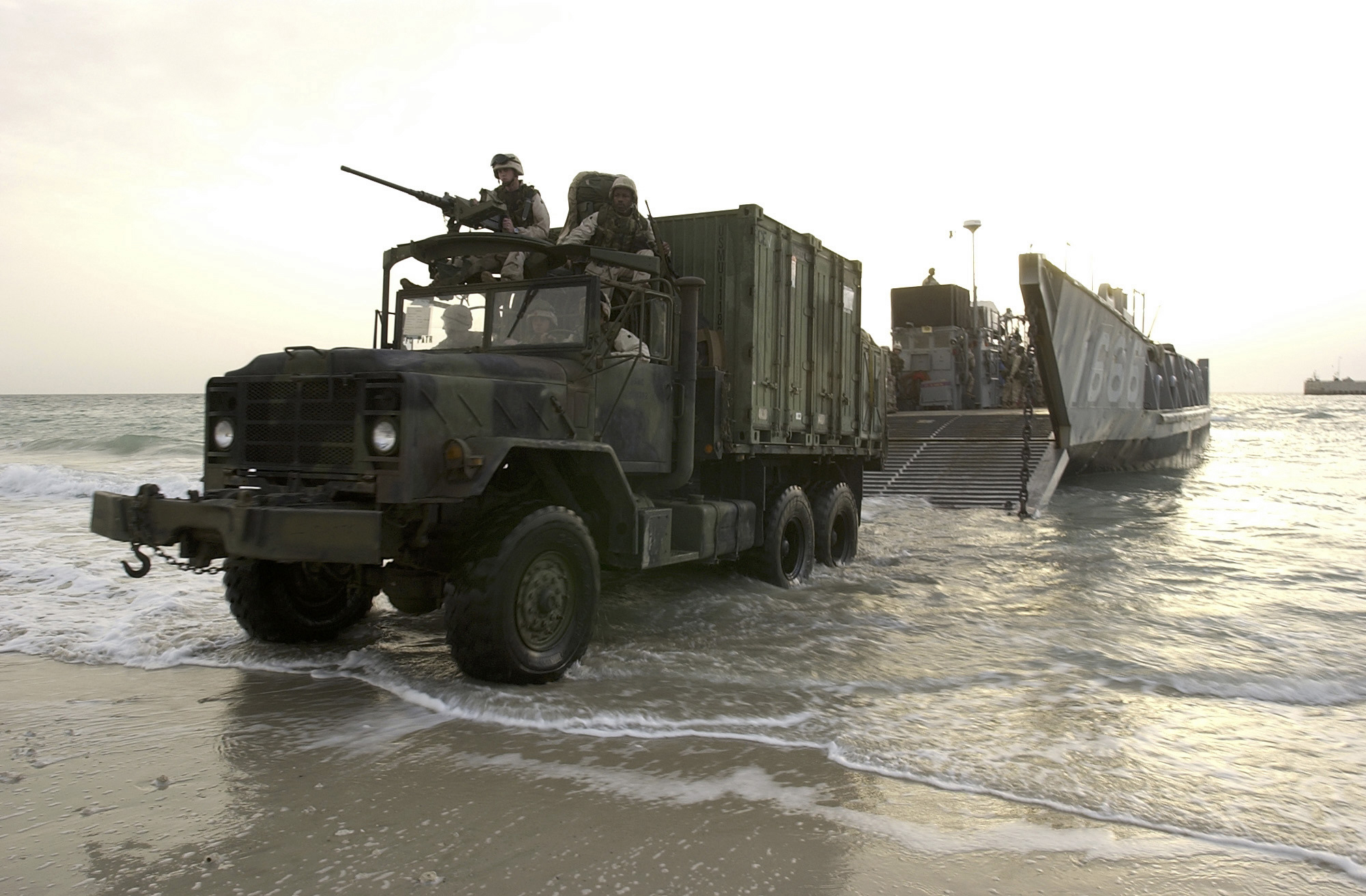 Central Command Area Of Responsibility (Feb. 12, 2003) -- A 5-ton truck roles off of a Landing Craft Utility (LCU) from the USS Tarawa Amphibious (LHA 1) Ready Group (ARG) to be used for future operations. The ARG uses LCU's and other conventional landing craft as well as helicopters to move U.S. Marine assault forces ashore. Tarawa is currently forward deployed in support of Operation Enduring Freedom. U.S. Navy photo by Photographer's Mate 1st Class Brien Aho. (RELEASED)